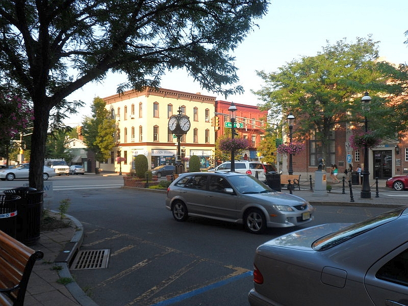 Madison Civic Commercial District Madison NJ